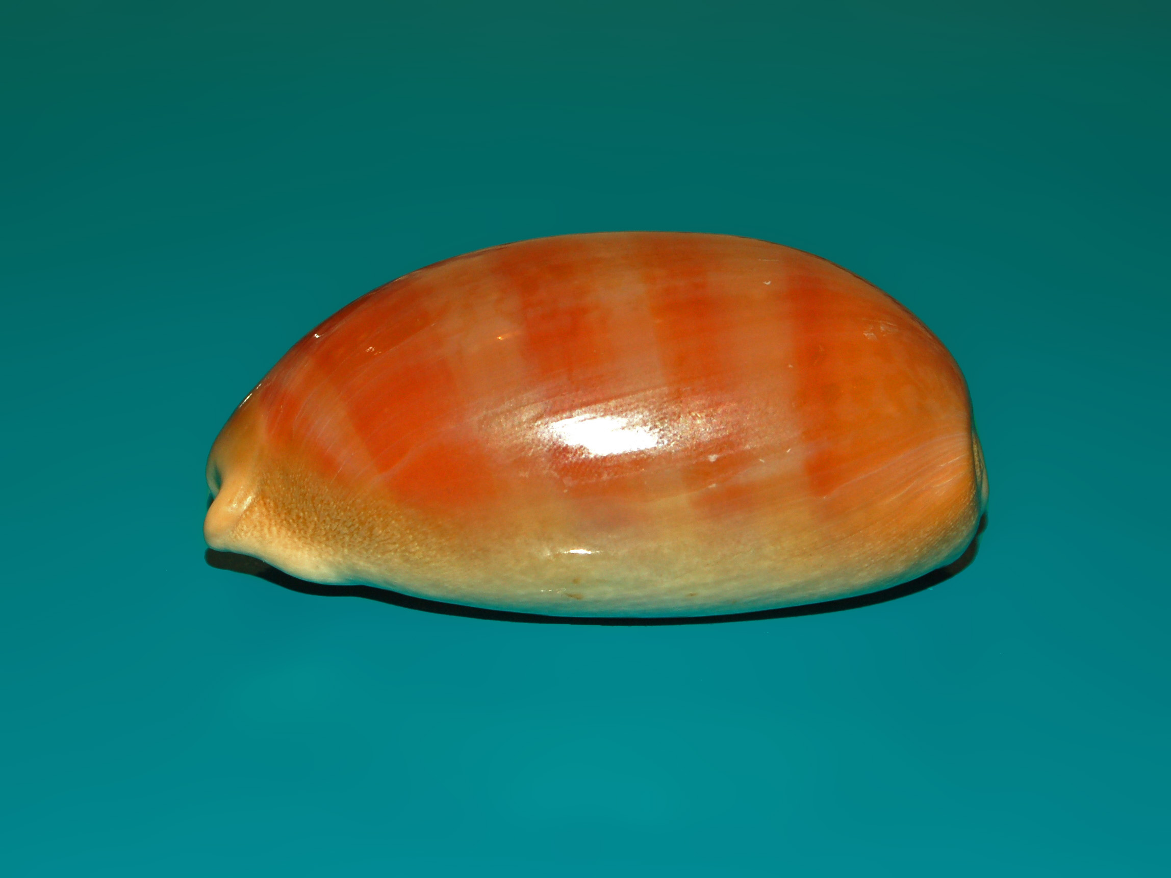 Lyncina leviathan leviathan - Hawaii